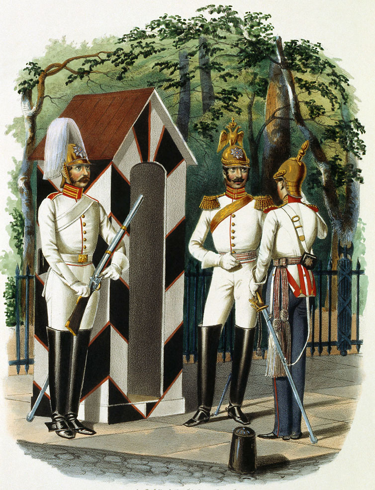 Uniforms of Lifeguard Horse Regiment of Russian Empire army in 1848.